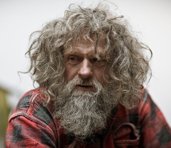 Tróndur Patursson, an artist from Faeroer, photo by Ronni Poulsen.